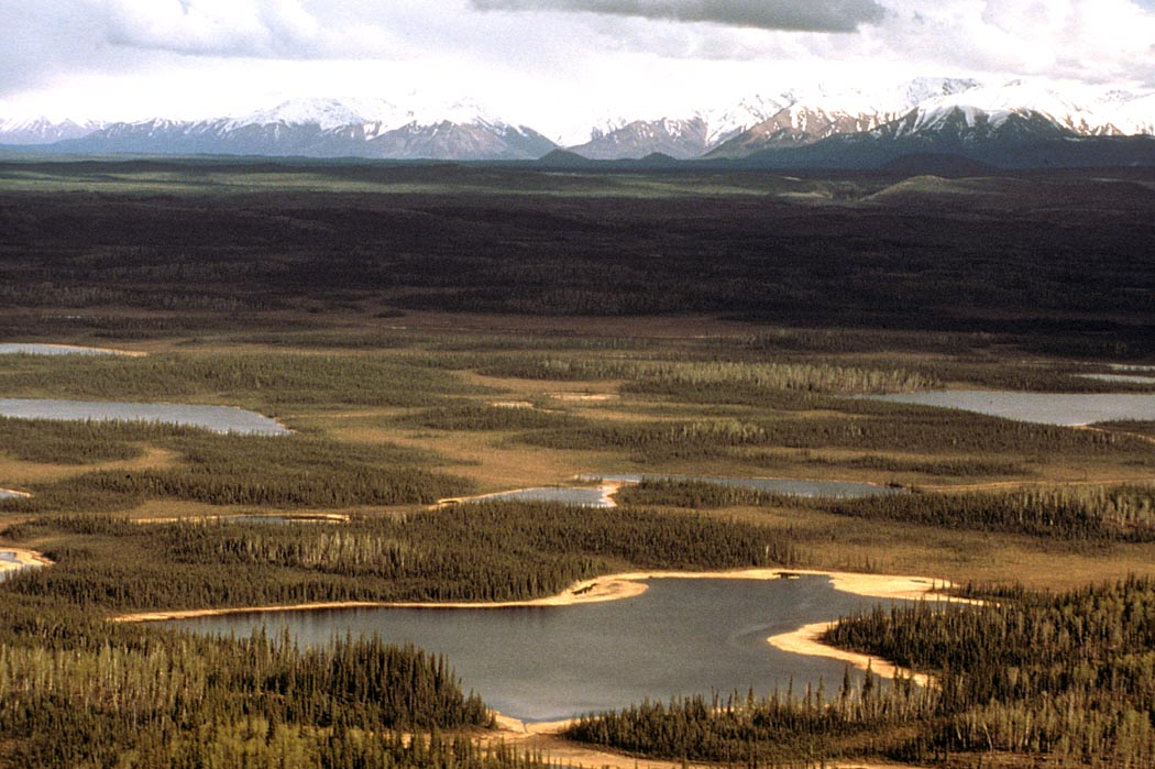 Scenic View of Tetlin NWR